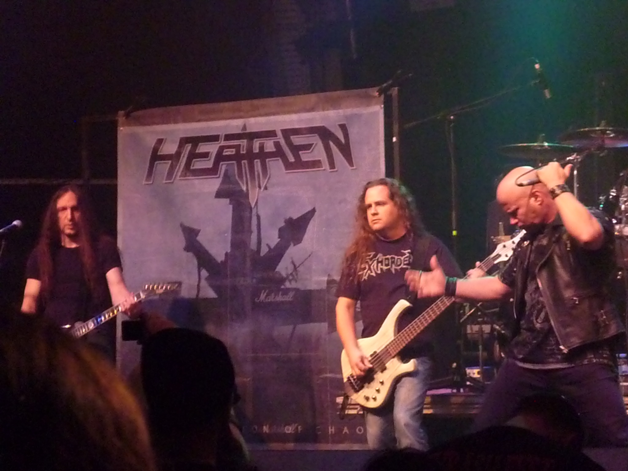 Heathen live at the Thrashfest (Garage Saarbrücken)